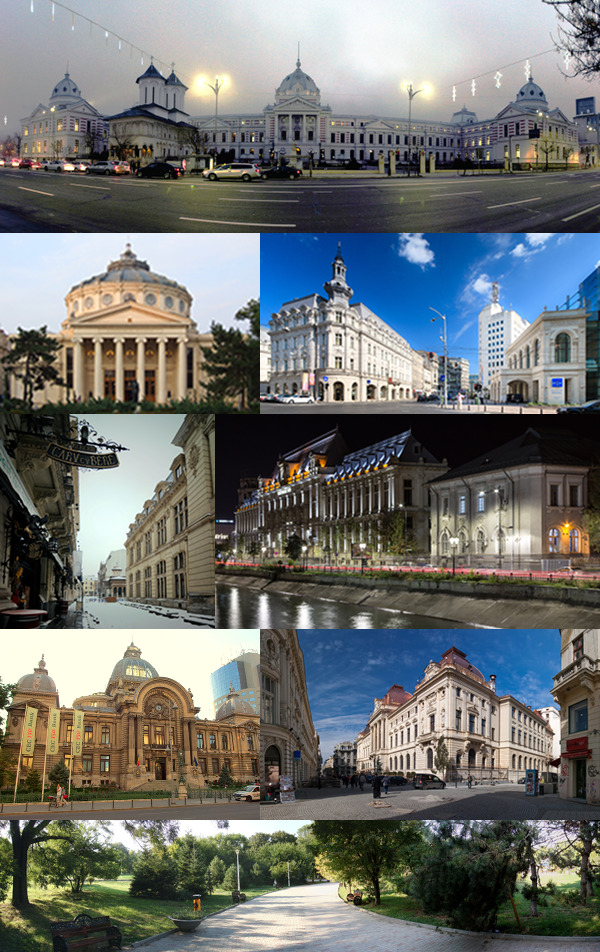 Collage of photos of Bucharest. From top, left to right: 1) Colțea Hospital; 2) Romanian Athenaeum; 3) Victory Avenue; 4) Lipscani district, view towards Caru' cu Bere and Stavropoleos Monastery; 5) Palace of Justice; 6) CEC Palace; 7) former head office of National Bank of Romania; 8) Floreasca park